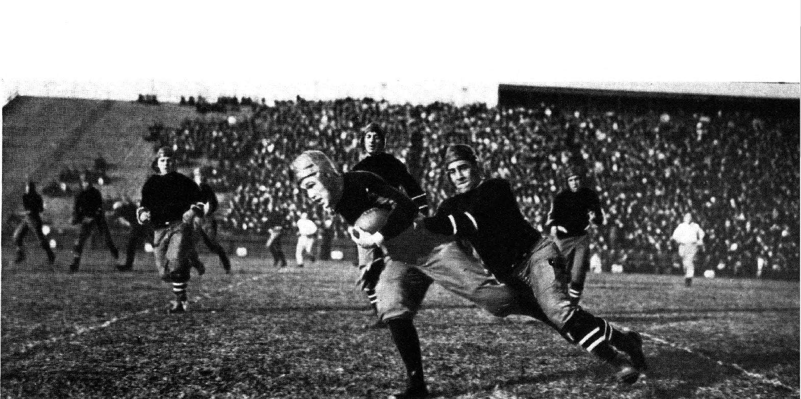 Photograph of Cliff Sparks, 1917, "Sparks tackled but still gaining"